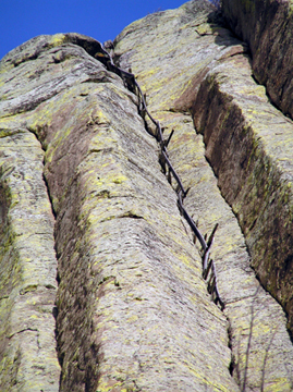 Original 1893 climbing ladder to the top of Devil's Tower, Devils Tower National Monument, Wyoming, USA